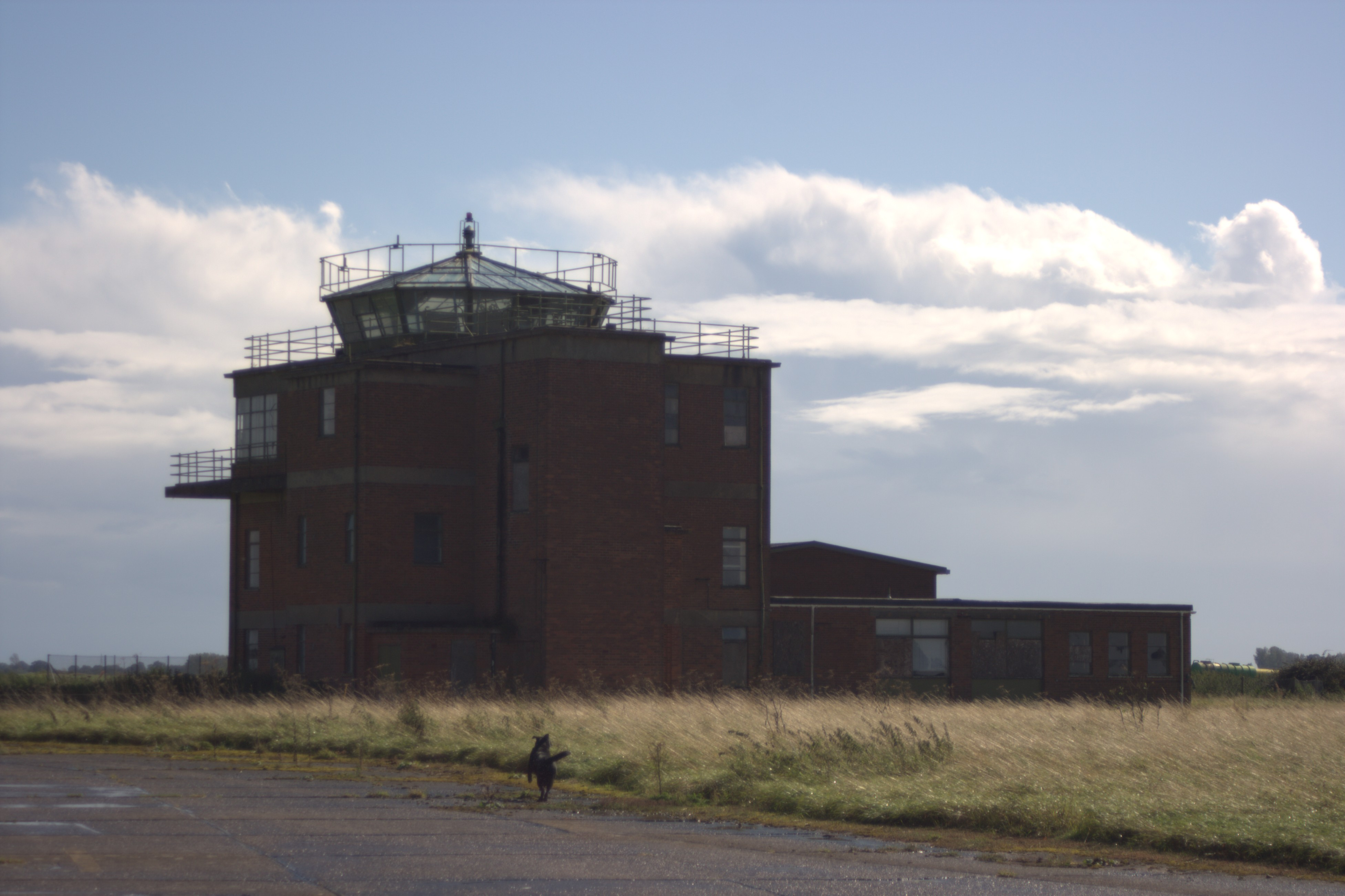 Tower no access